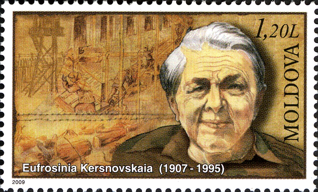 Stamps of Moldova